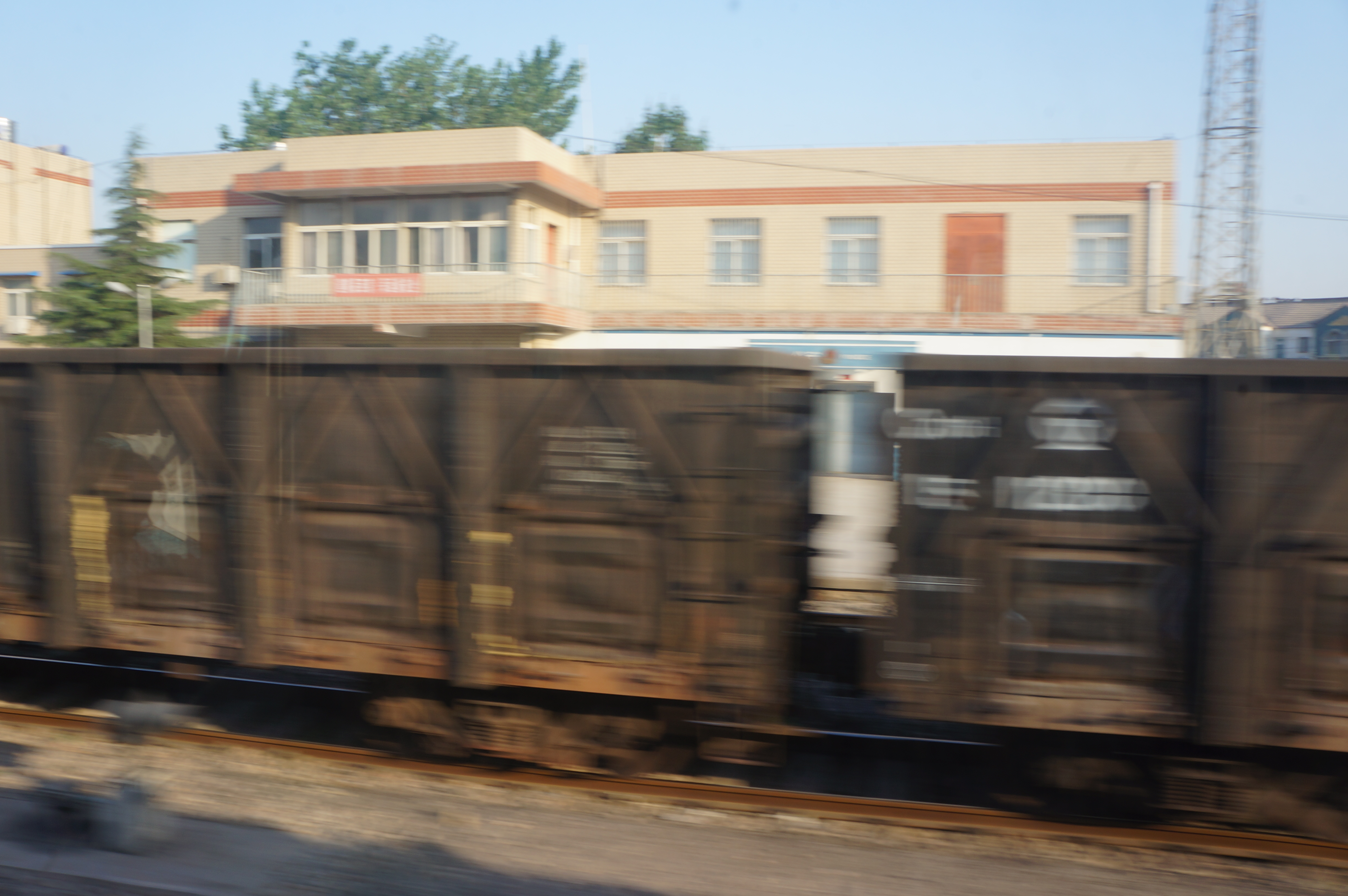 201705 Conductor of Xiquanjie Station